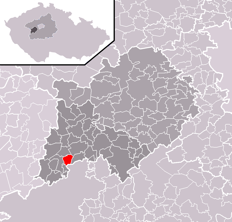 Location of Hvozdec municipality within Beroun District and administrative area of Hořovice as a Municipality with Extended Competence.